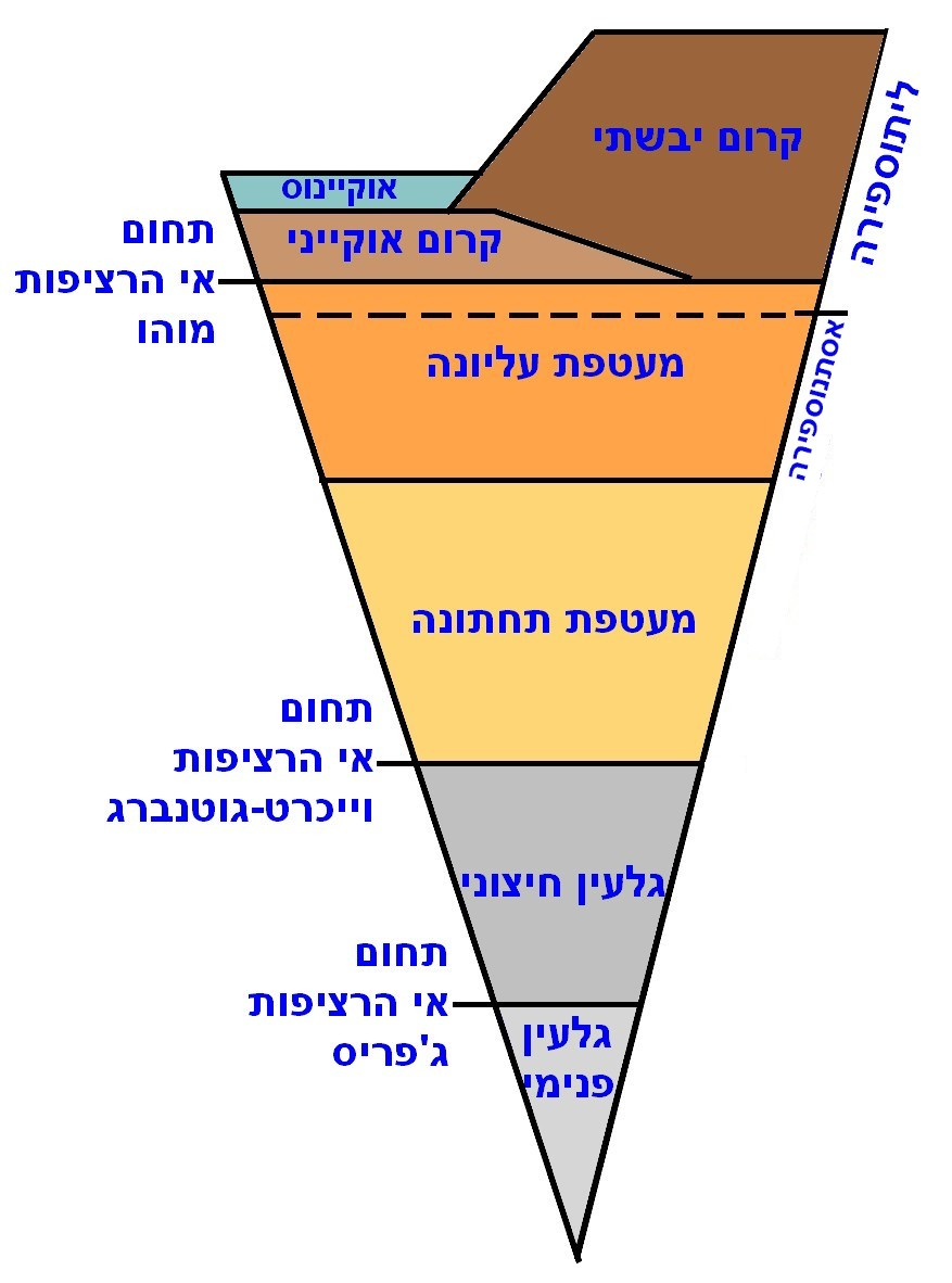 Earth's structure, Hebrew